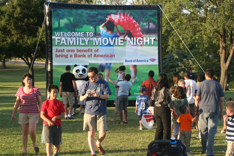 inflatable billboard (AIRFRAME)